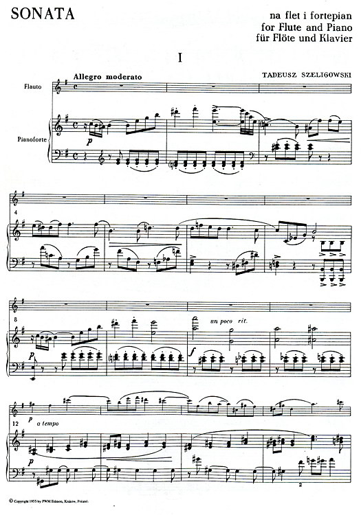 Musical score of Sonata for flute and piano by Polish composer Tadeusz Szeligowski.